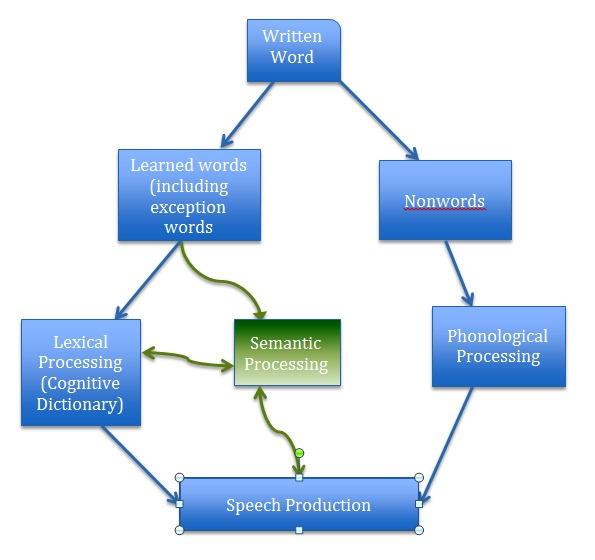 Flow chart of the mechanisms involved in the dual-route hypothesis to reading aloud.